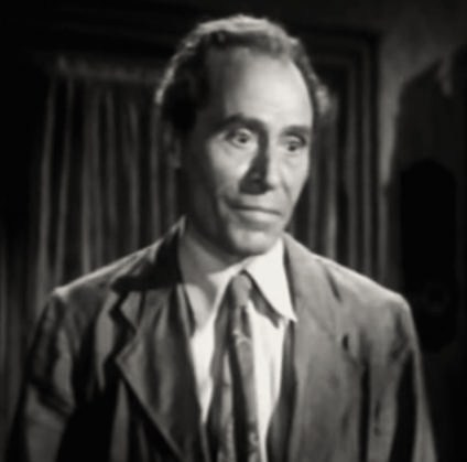 William Edmunds in Swamp Fire - cropped screenshot